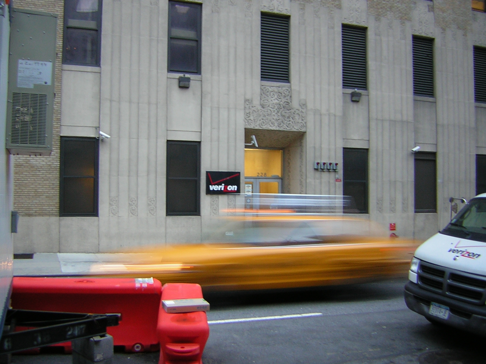 Front door of the New York Telephone wire center building at 228 East 56th Street Manhattan, typical of the 1920s expansion program.